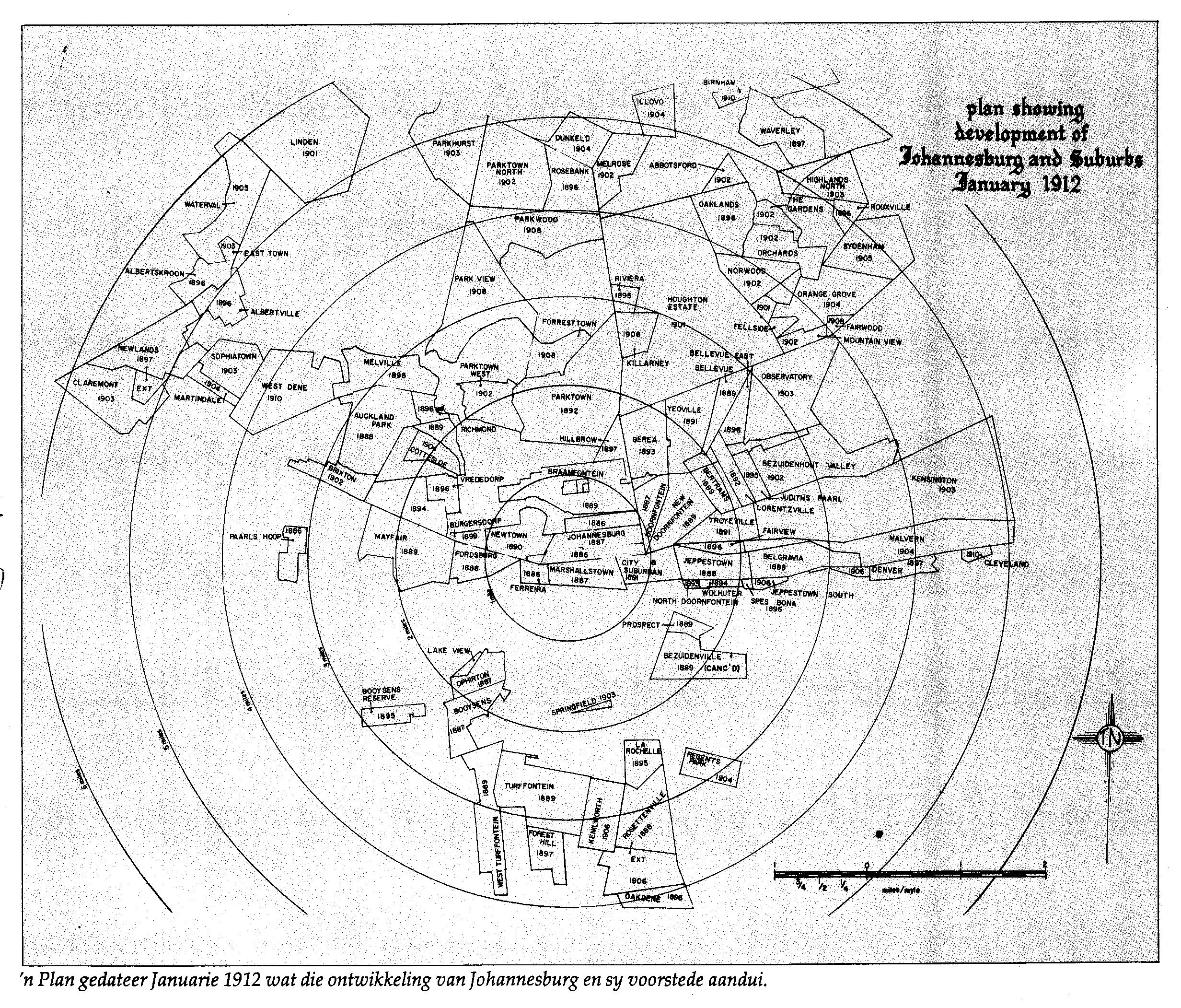 The map shows Johannesburg, South Africa in 1912, particularly suburbs and their dates of establishment